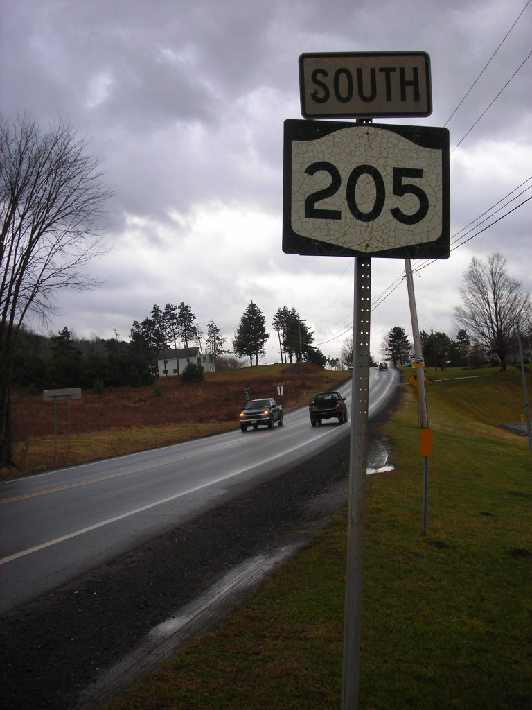 An old shield along New York State Route 205.